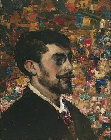 Portrait of a Man